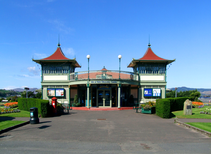 A 1920s seaside entertainment venue now used as a cinema and tourist advice centre.